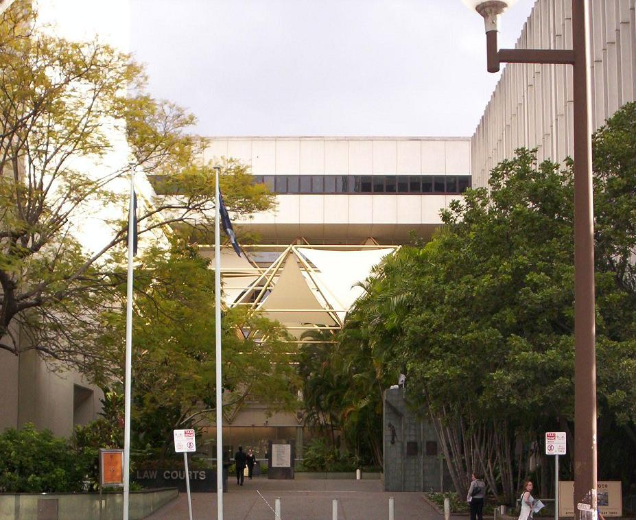 The former Law Courts building, George Street, Brisbane(this photograph was taken by Figaro)